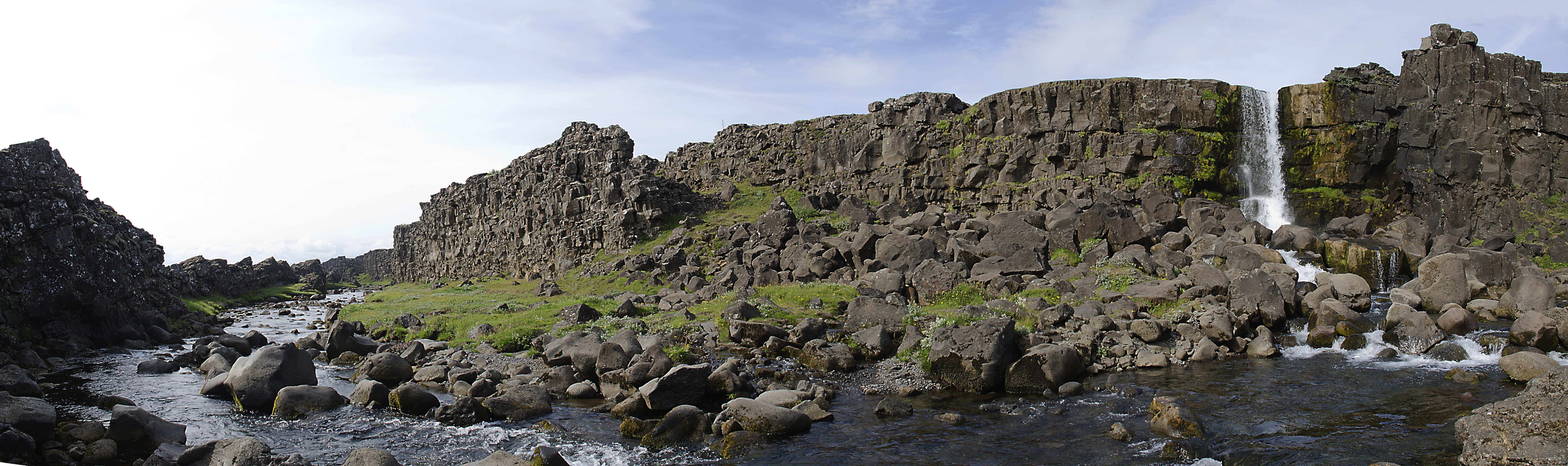 Öxarárfoss, near Thingvellir, Iceland. Panorama stitched with Hugin